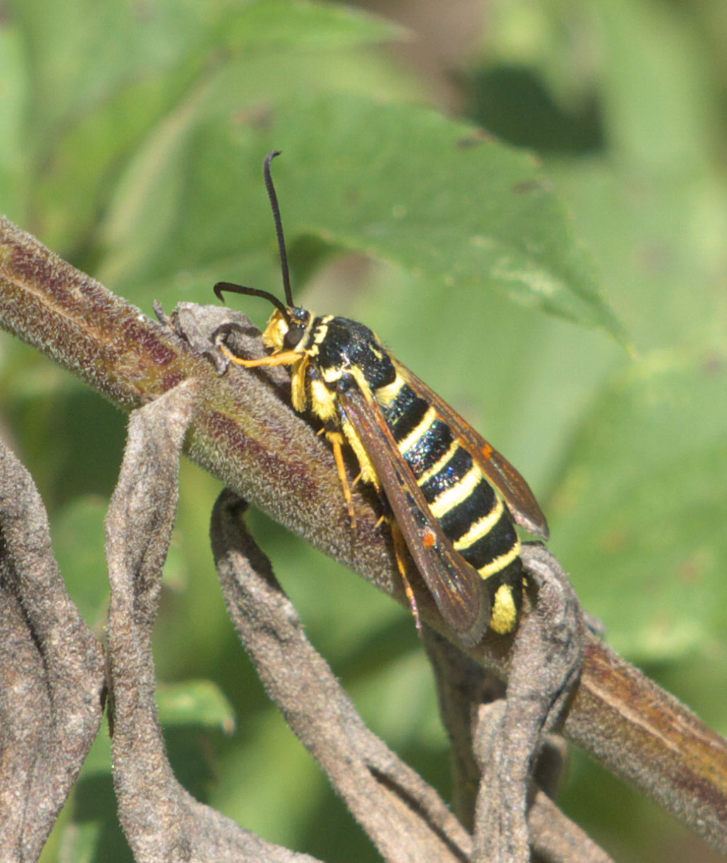 Synanthedon rileyana, Riley's clearwing, ID Confidence: 87